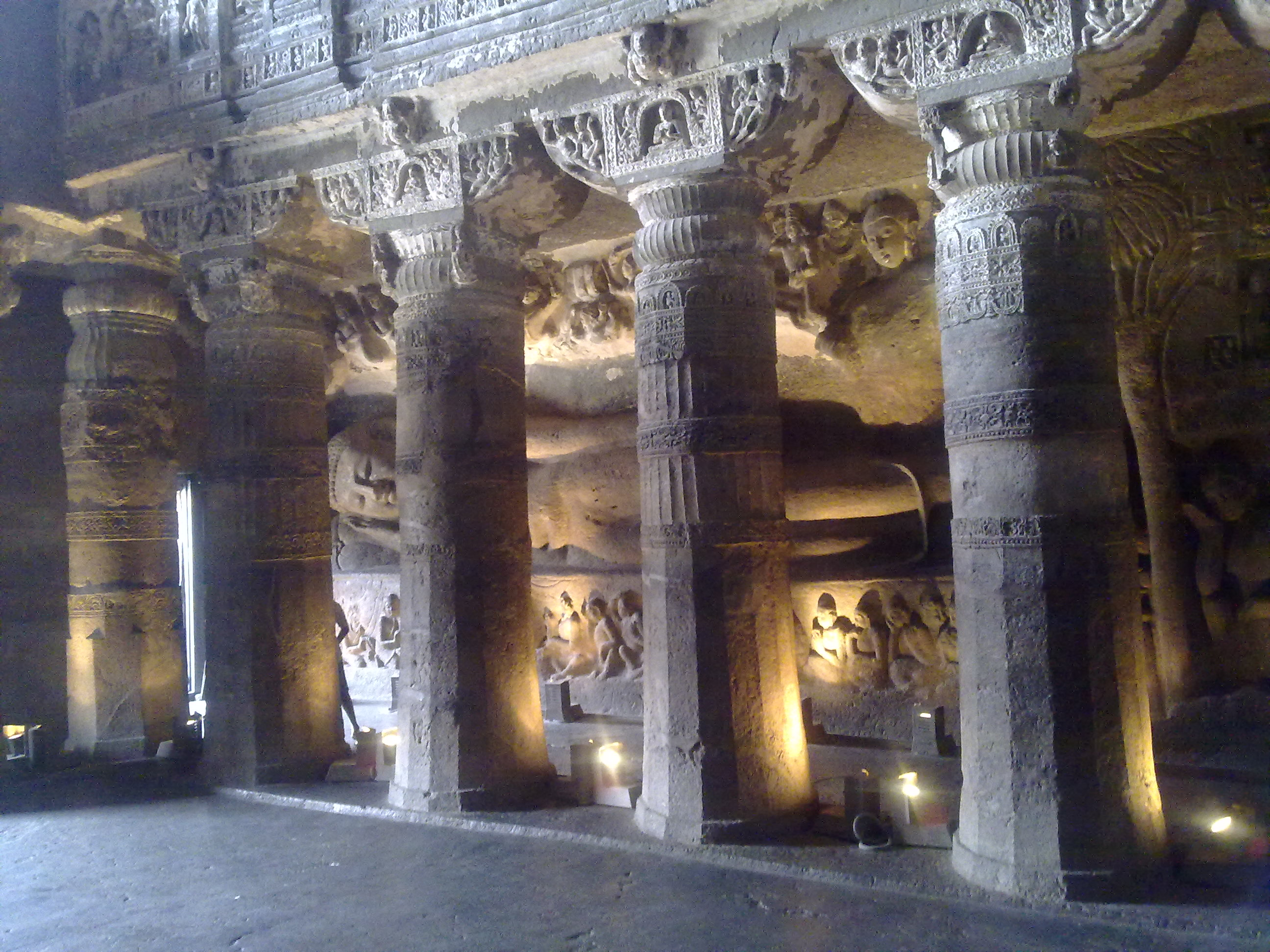 Sleeping Buddha @ Nirvana Stage - Ajantha Caves, Maharashtra, India